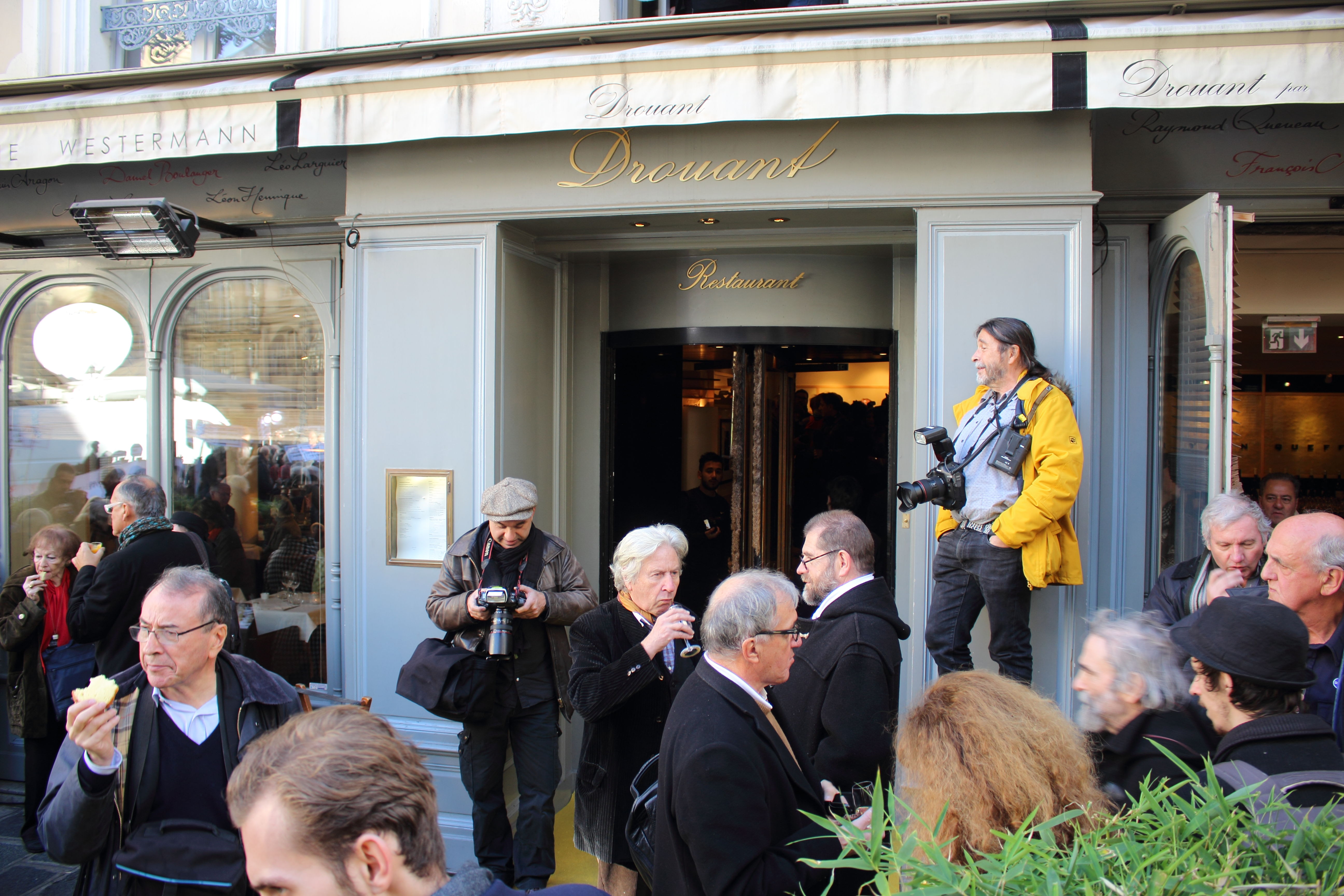 2016 Prix Goncourt at Le Drouant restaurant, 16-18 place Gaillon, Paris, France.